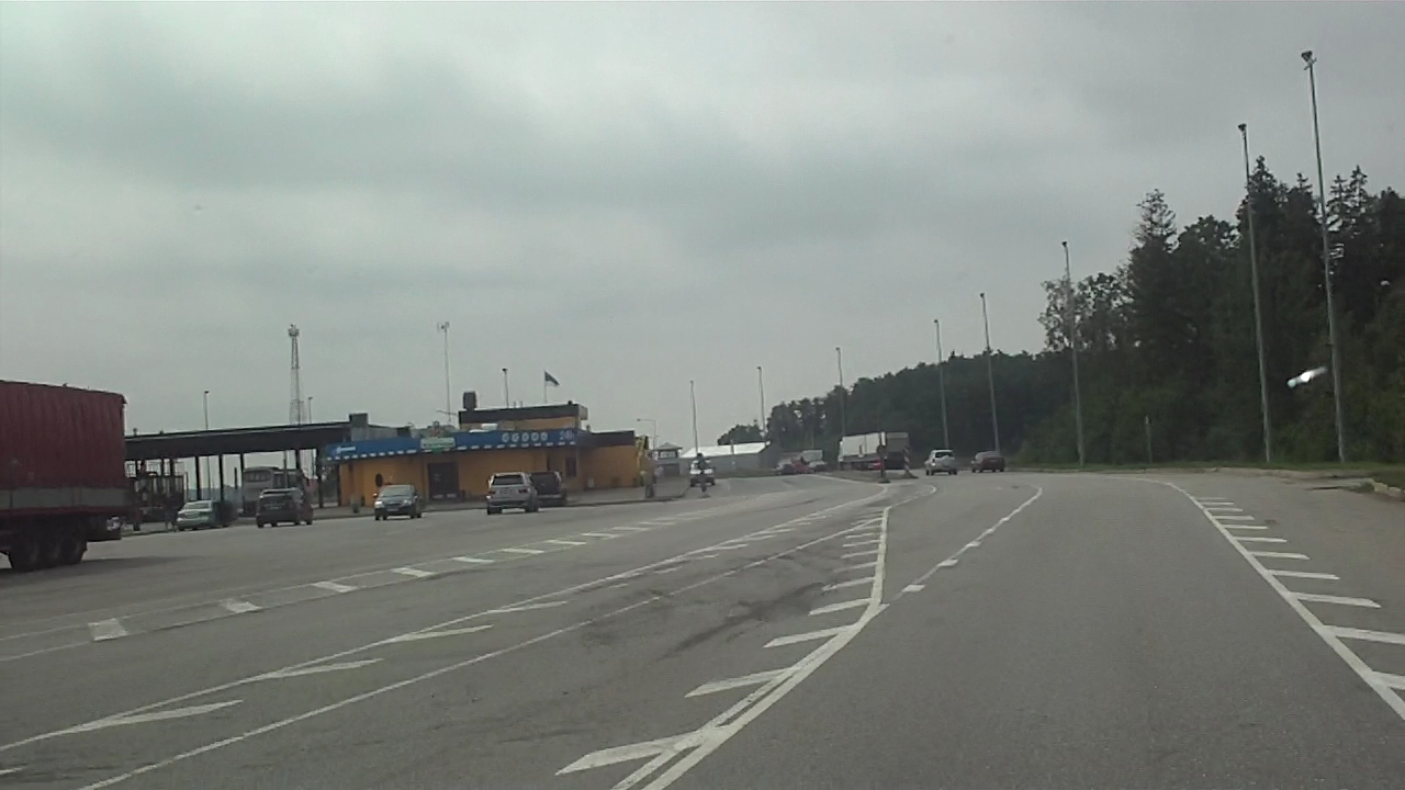 Estonian-Latvian border. The border crossing at Ikla/Ainaži, Estonia.